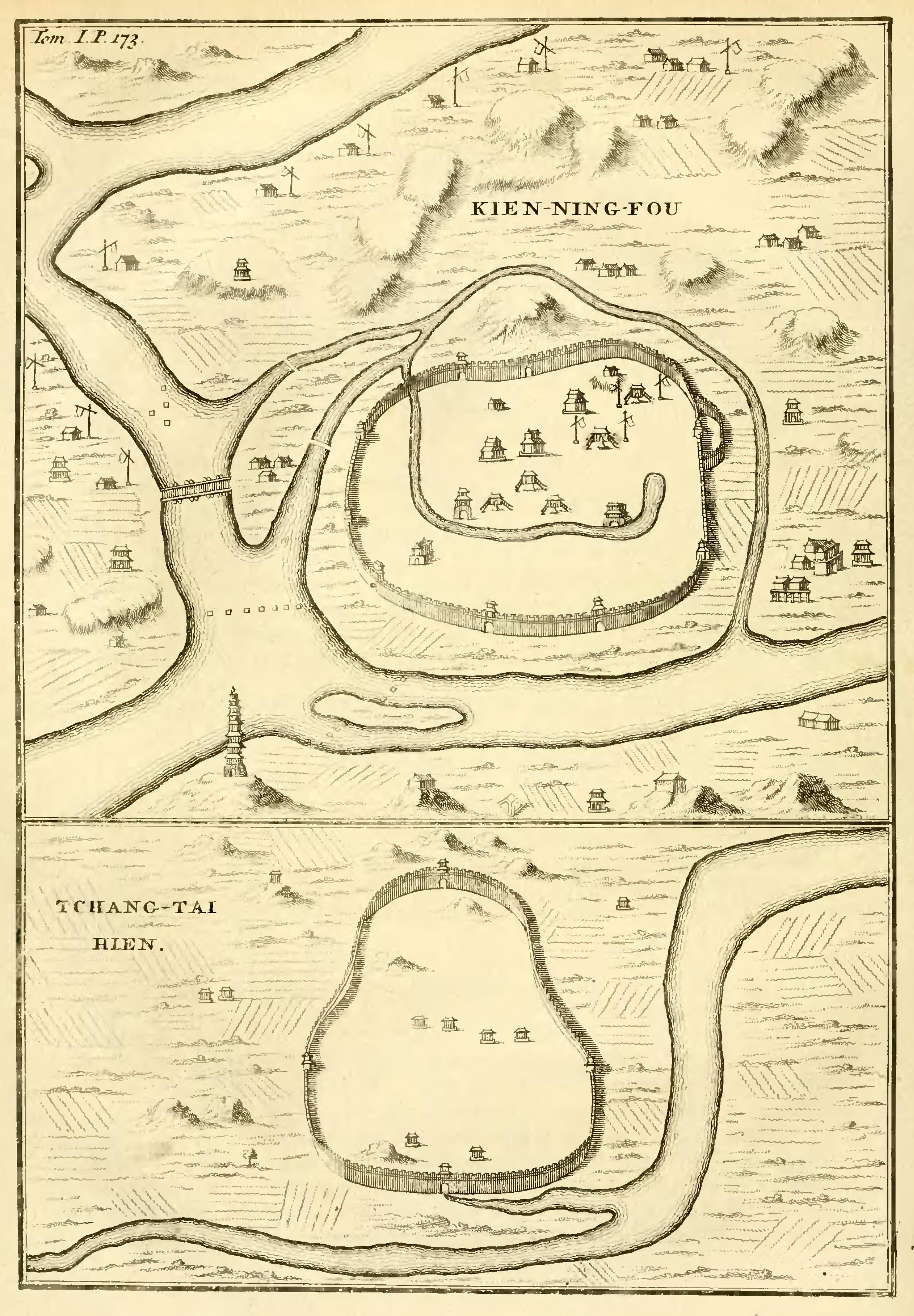 Engravings from La Haye's edition of Du Halde's Description of China, Vol. I, p. 173. Maps of Jianningfu (建寧府, now Jian'ou) and Changtaixian (長泰縣).